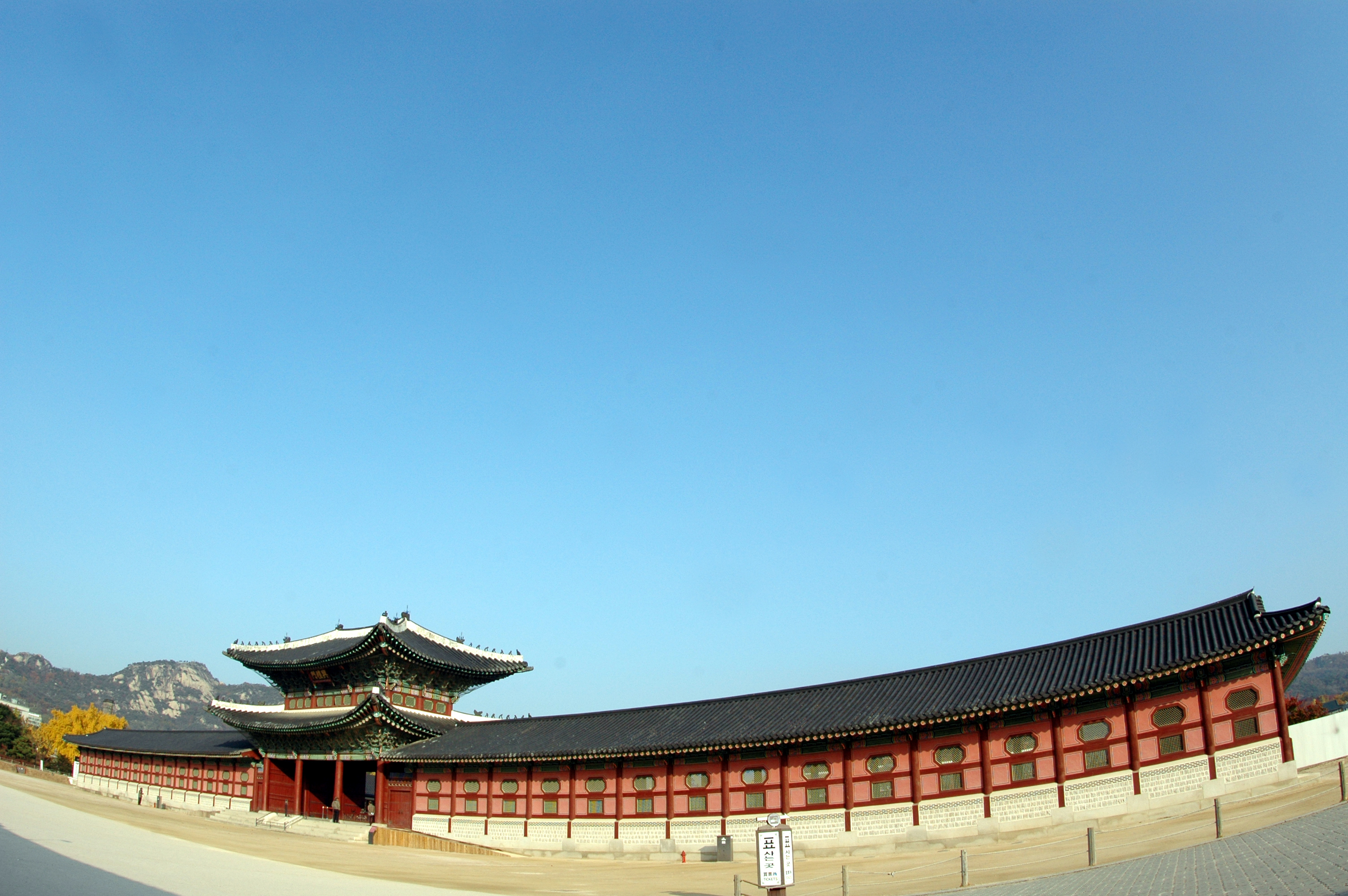 Gyeongbokgung Palace photo by D Ramey Logan January 2011